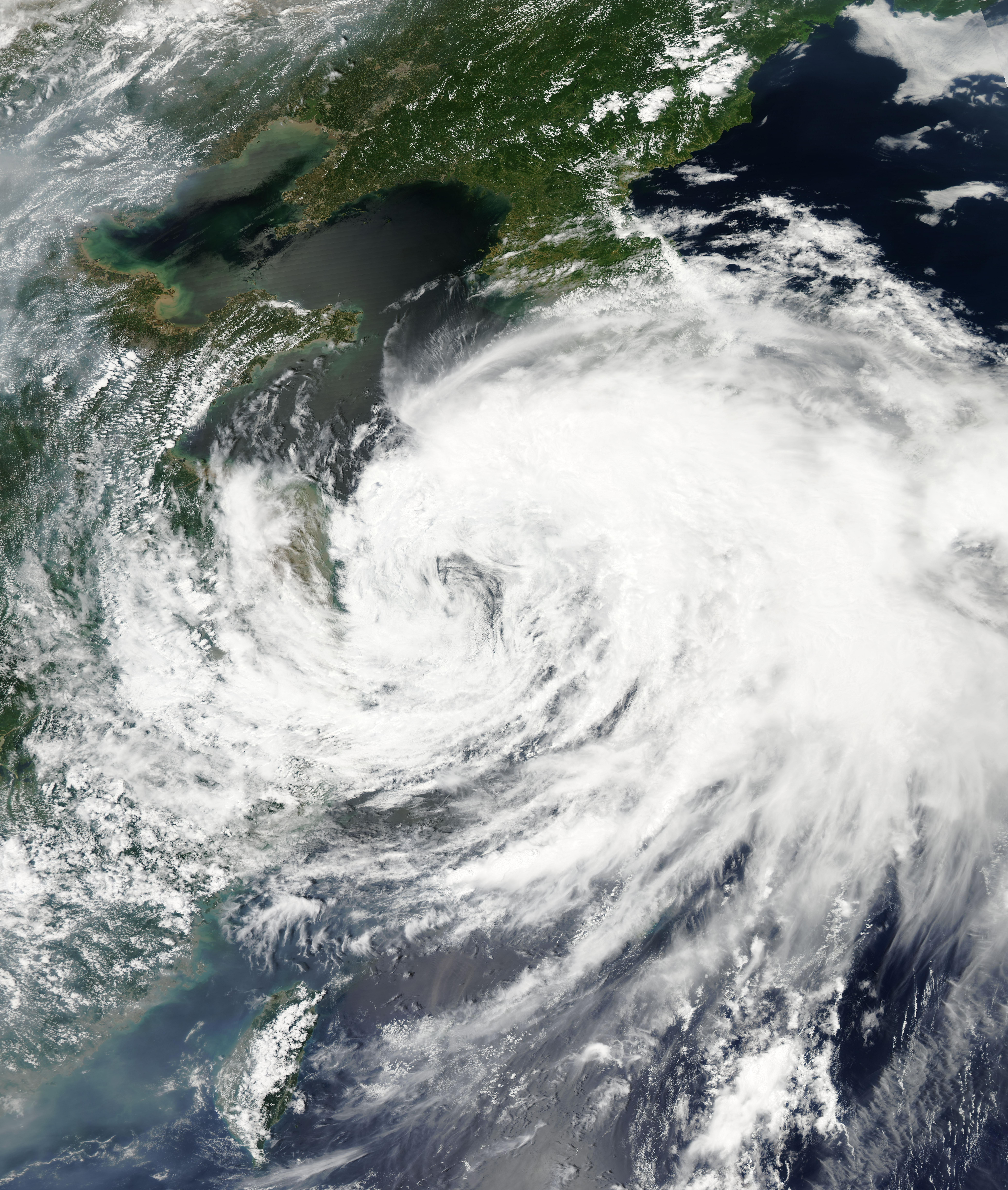 Severe Tropical Storm Nakri on August 2,2014